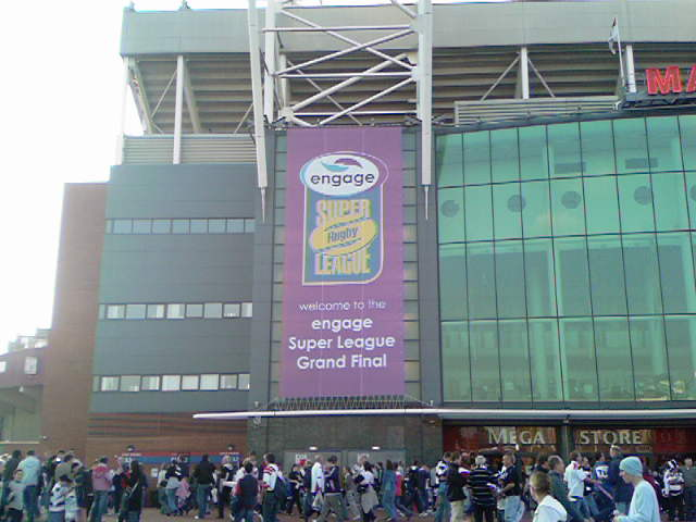 The Super League Grand Final at Old Trafford.